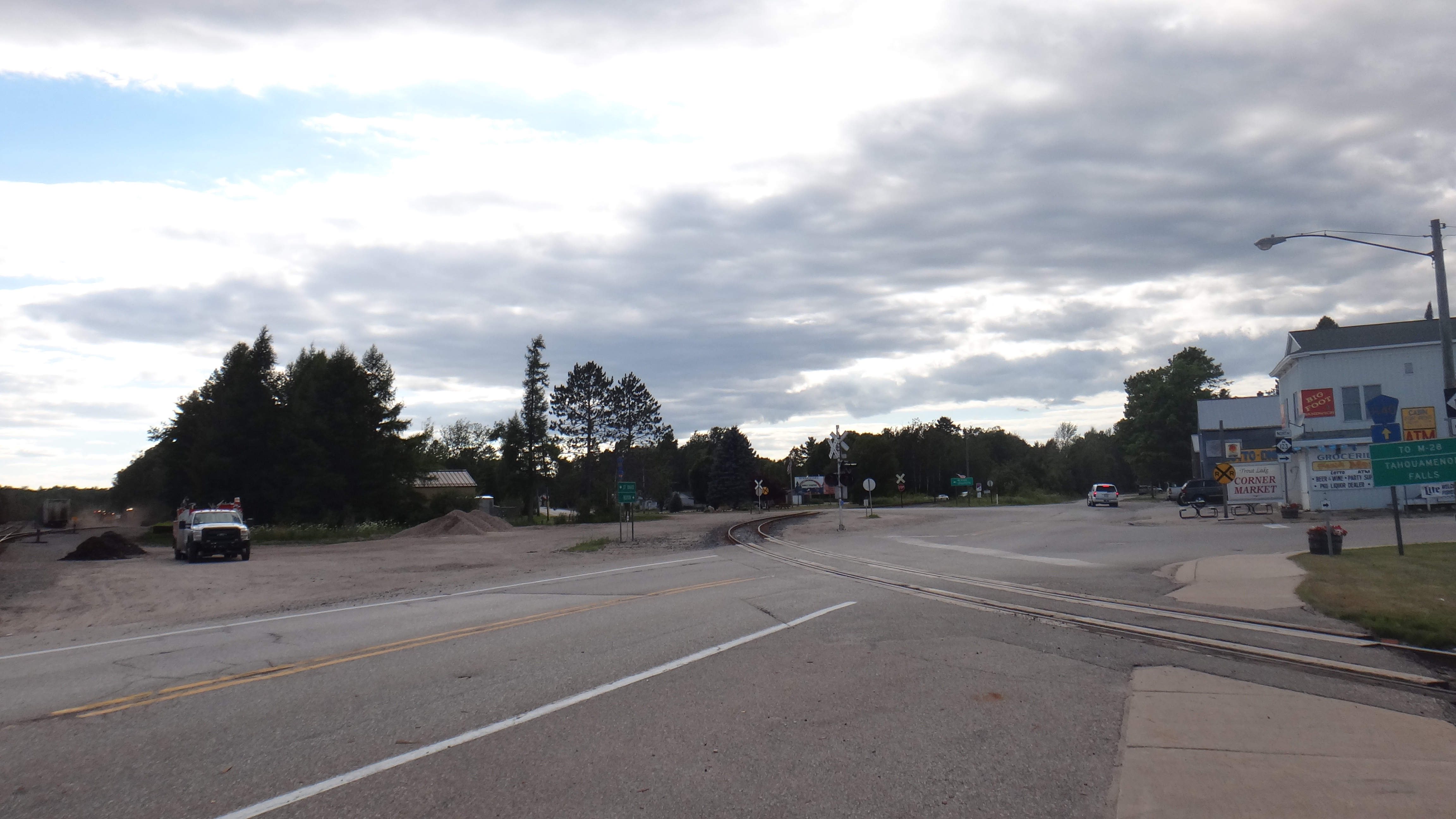 Here is a view of downtown Trout Lake Township,Michigan.